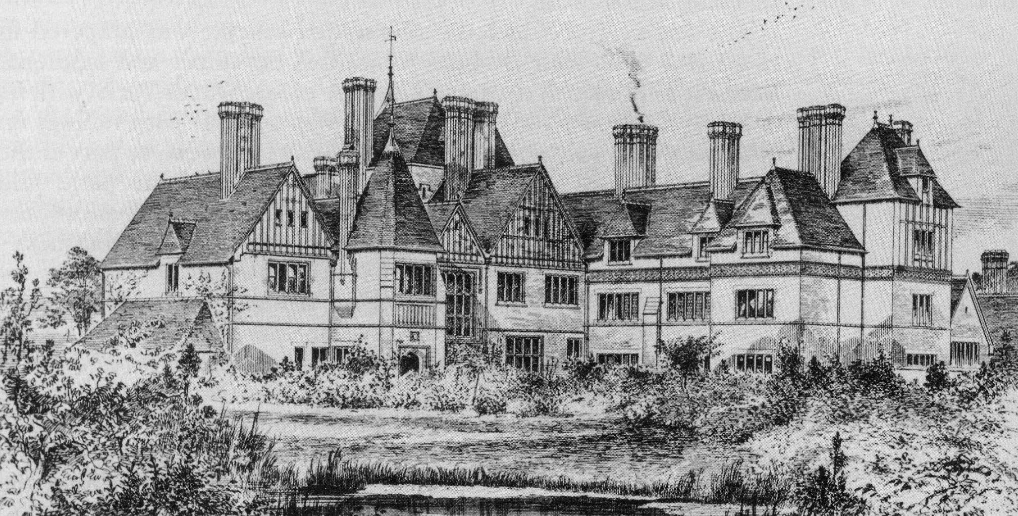 Scanned from the book by me. Shows the entrance front around 1879. Taken from British Architect, 11, 1879, p. 36